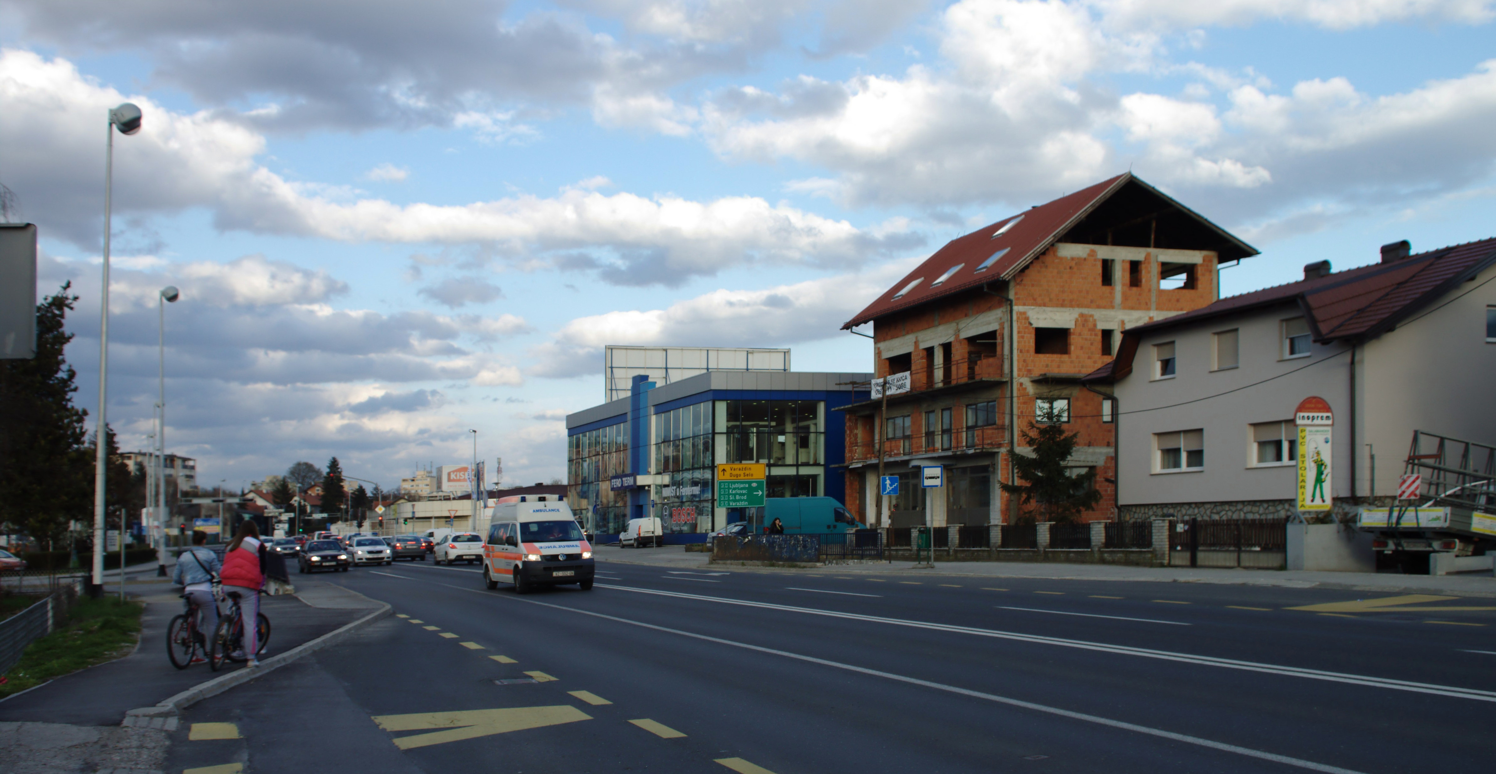 A road connecting the city of Zagreb with Sesvete, Croatia